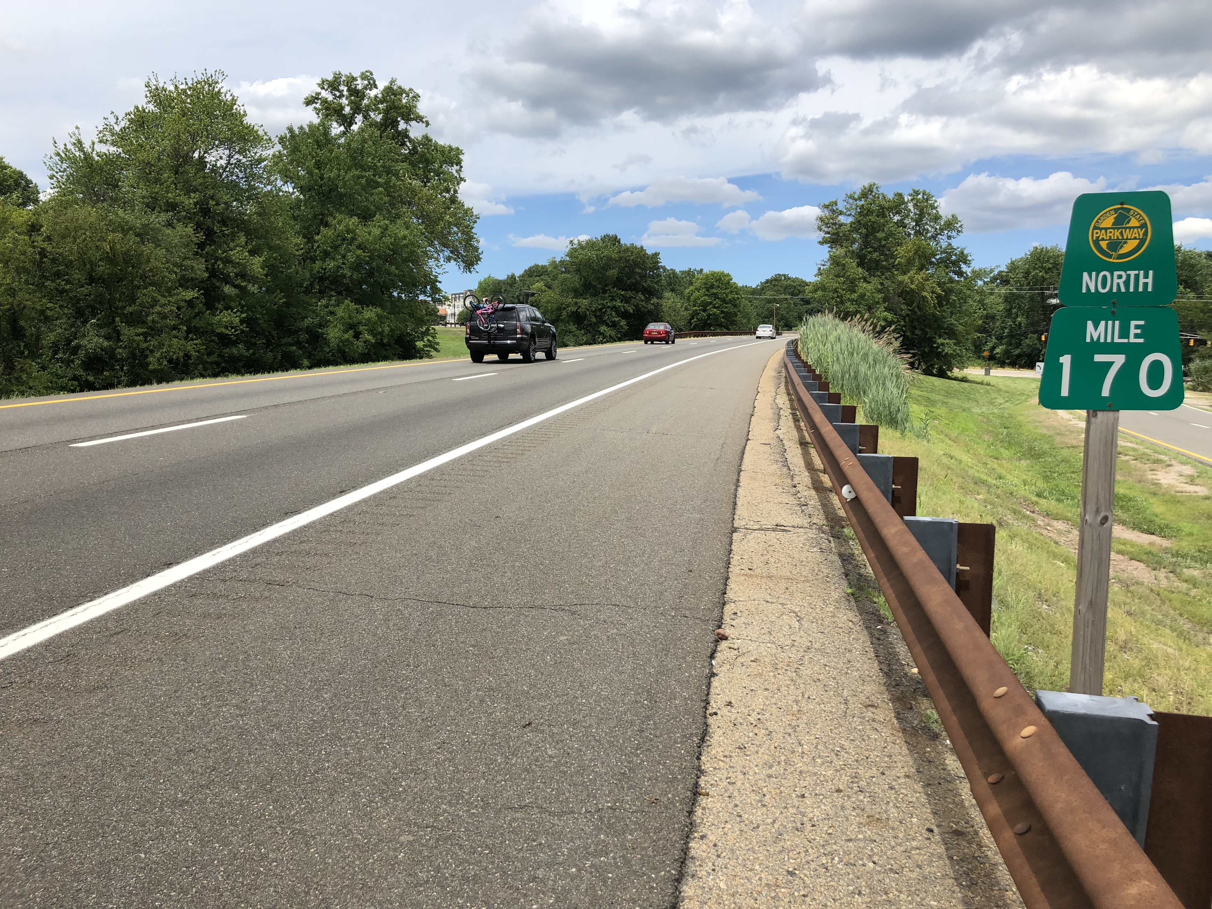 View north along New Jersey State Route 444 (Garden State Parkway) between Exit 168 and Exit 171 in Woodcliff Lake, Bergen County, New Jersey